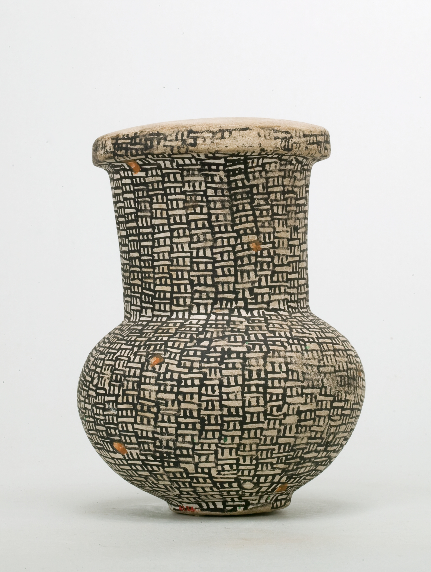 Model vase, Nebseny